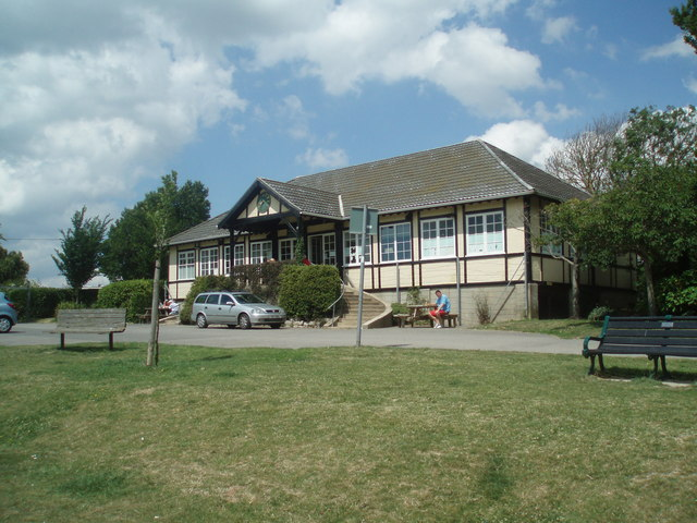 East Brighton Park cafe